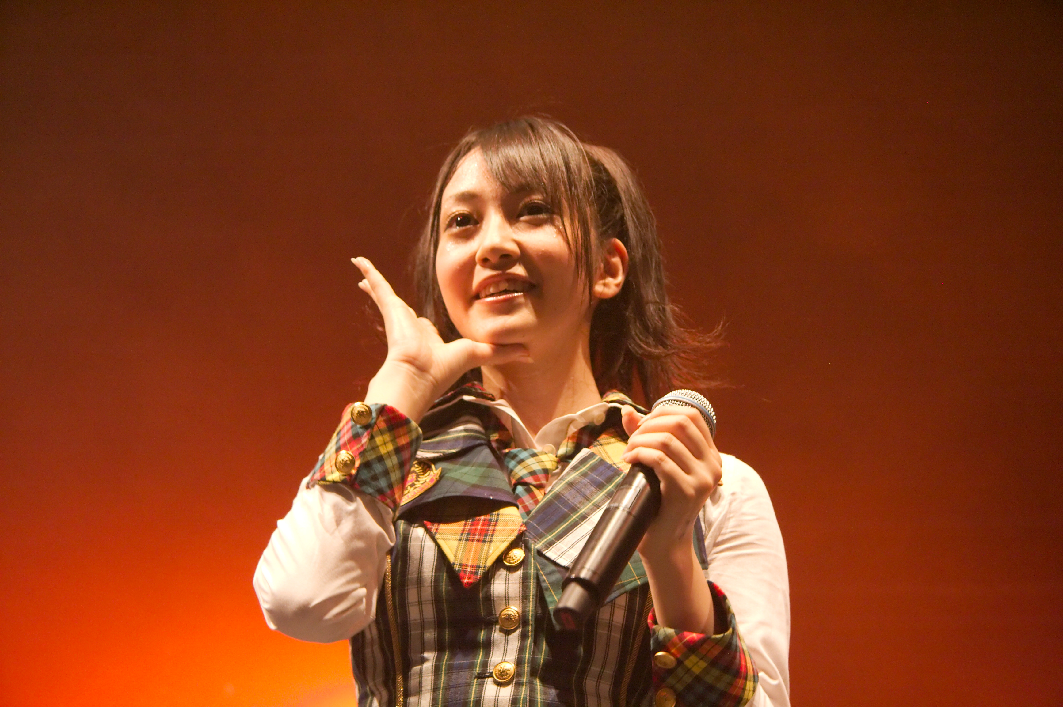 AKB48 live at Japan Expo 2009 (Paris, France).